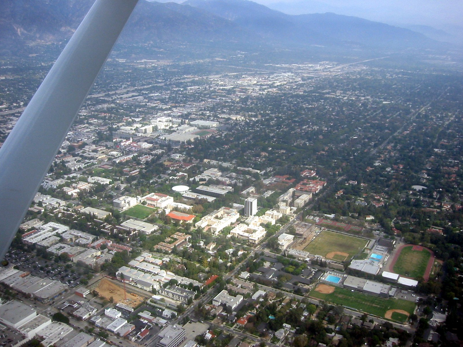 Aerial view of the Caltech campus in Pasadena, and the western San Gabriel Valley — from a Cessna on an aero club demo flight.